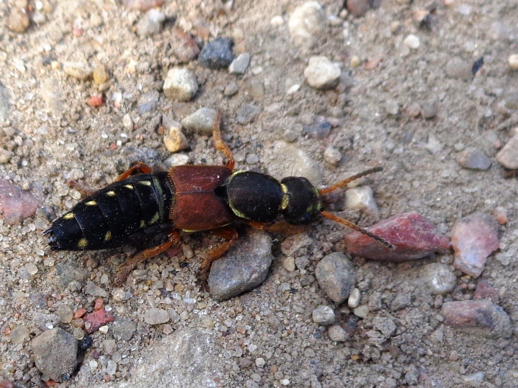 Staphylinus dimidiaticornis. Found in Riga town, Latvia.